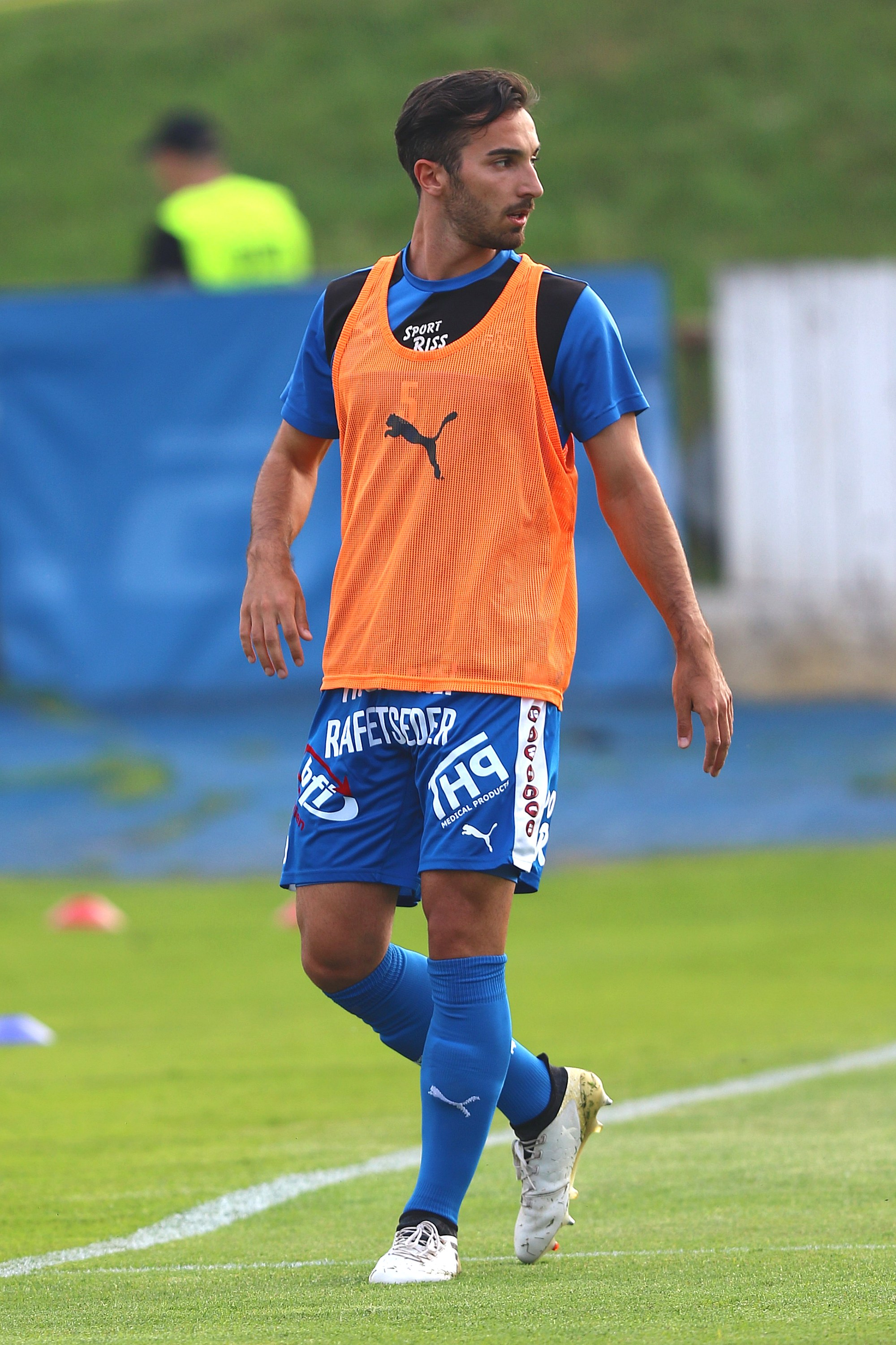 Football-championship Erste Liga 2017–18 - SC Wiener Neustadt (white shirts) vs. Floridsdorfer AC (blue shirts) 1-0. – The photo shows Ivan Leovac